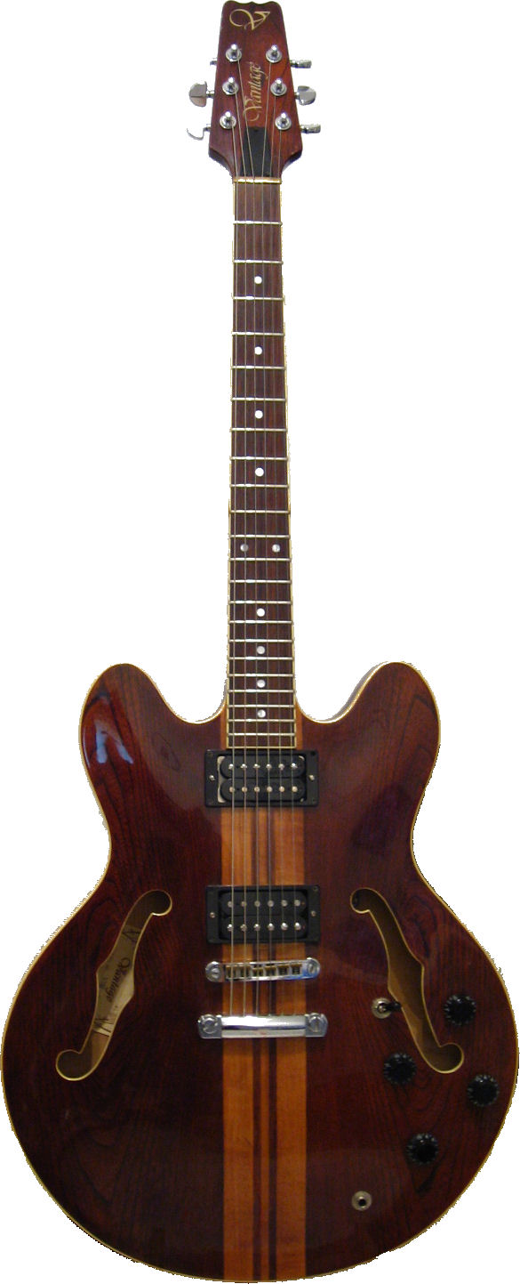 Vantage-semiacoustic guitar.